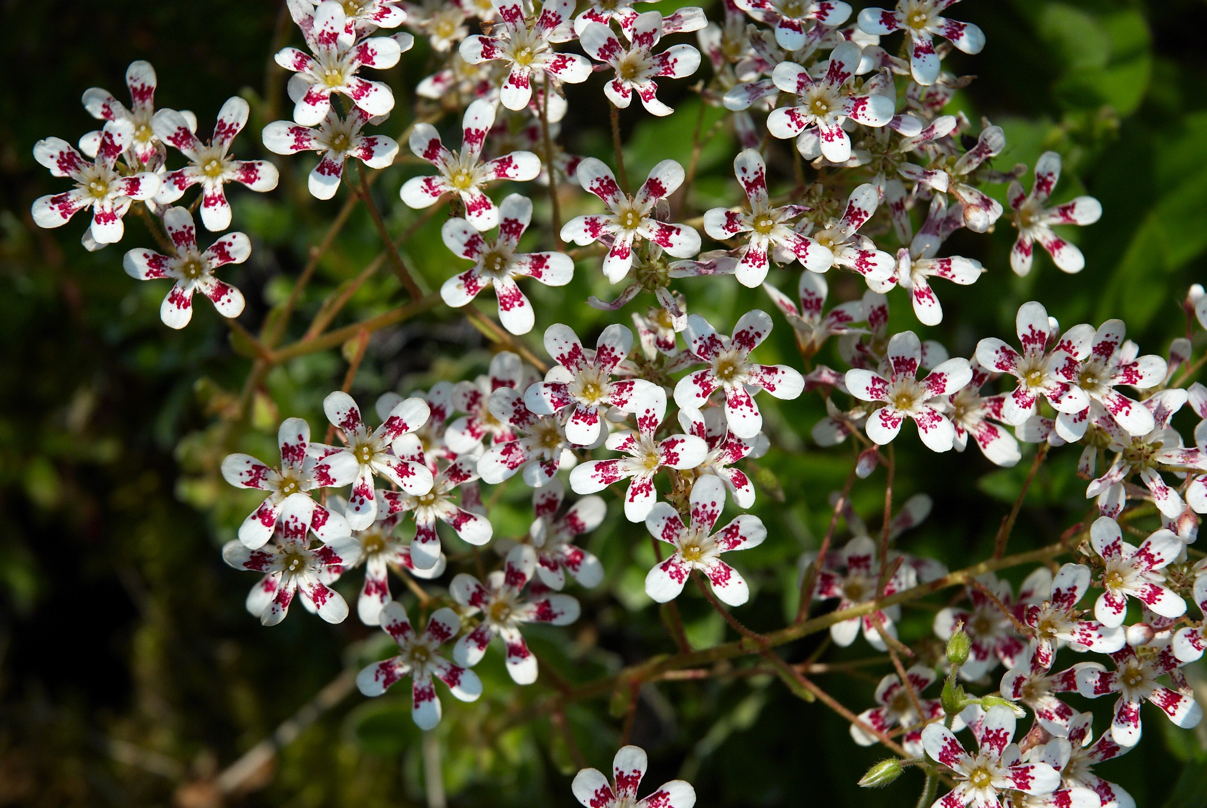 Chondrosea cotyledon (= Saxifraga cotyledon) 'Southside Seedling'